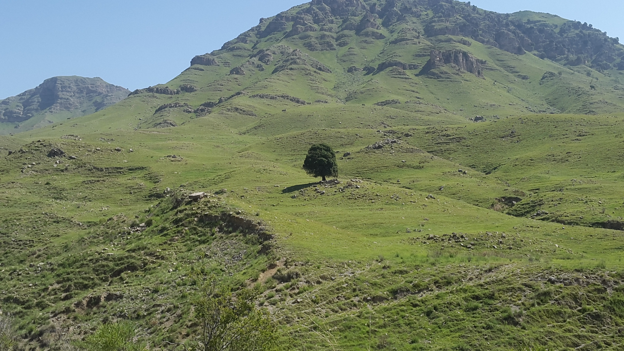 Orakzai Agency in North Waziristan